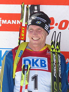 Björn Ferry (1978), biathlete from Sweden, in 2014 (cropped from File:Pokljuka Biathlon World Cup 2014 5938.JPG